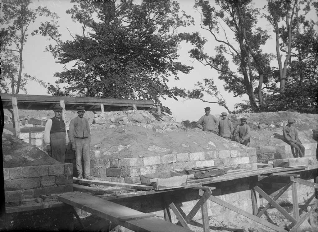 Workers at the excavations of the ruins of Aranäs Castle at Årnäs by Lake Vänern. The Castle - probably from the 13th century - plays a central role in Jan Guillous' novels about Arn - The Knight Templar. The castle ruins were excavated the first time in 1916-1925 by the archaeologists Bror Schnittger and Hanna Rydh.